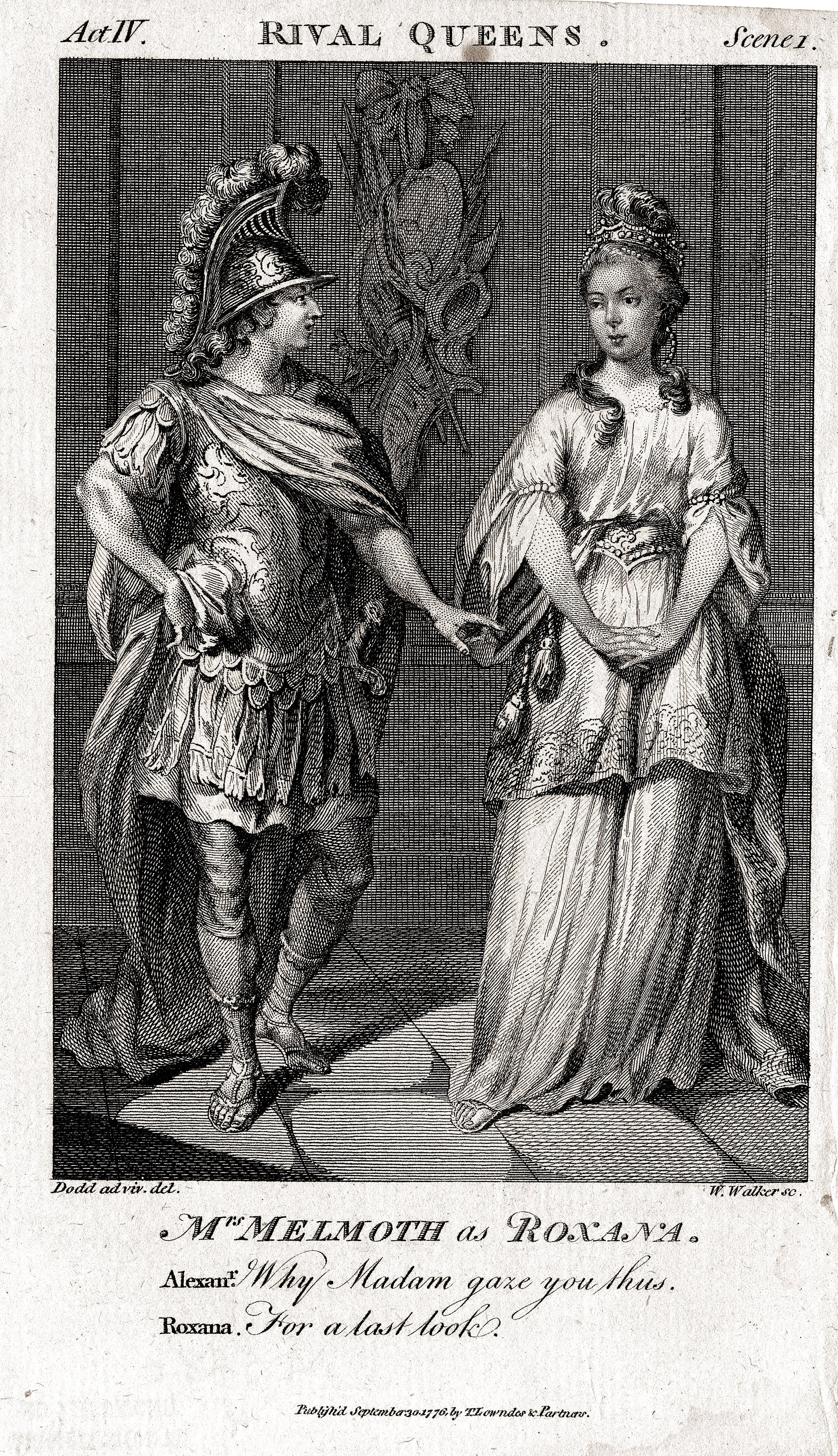 Charlotte Melmoth as "Roxana" in "The Rival Queens". 'Dodd ad viv. del. / W. Walker sc.'